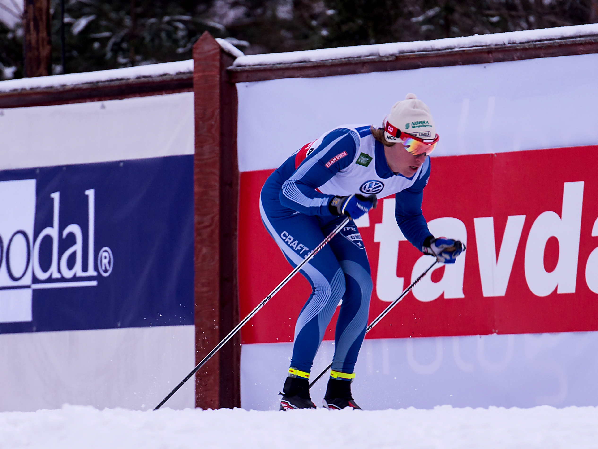 Simon Persson in the second quarter final of cross country skiing, sprint discipline, for men. 2013 Swedish national championships, Falun, Sweden.